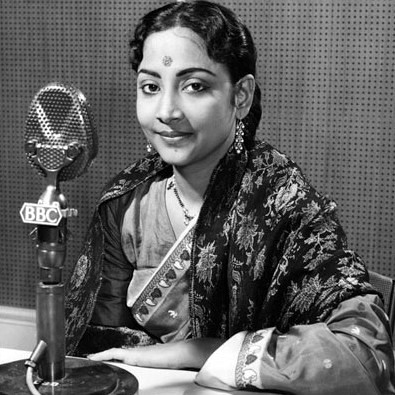 Portrait of Indian playback singer Geeta Dutt